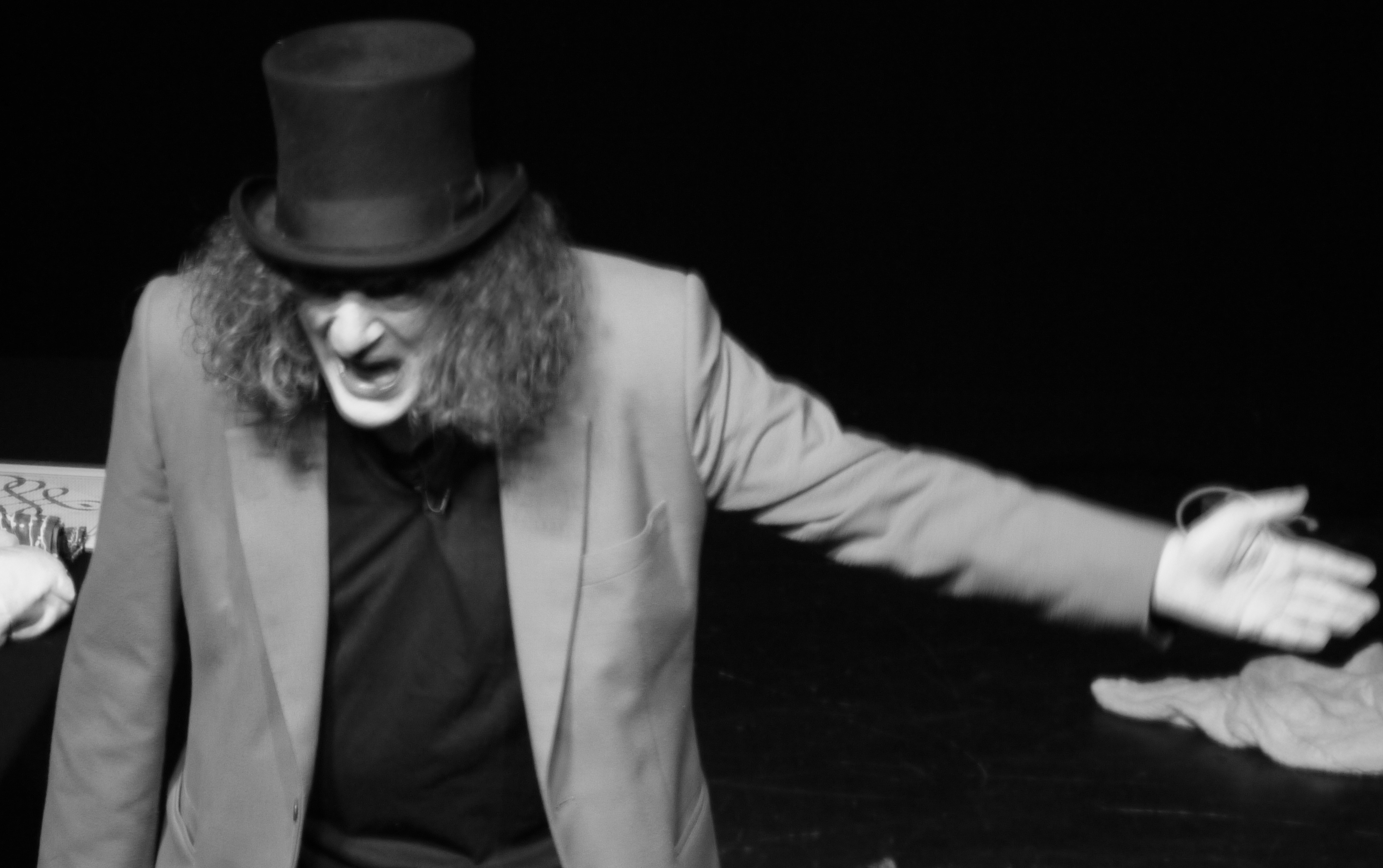 Jerry Sadowitz at the Greenock Arts Guild.